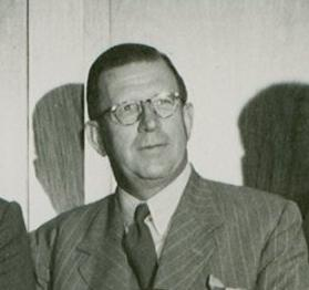 Theophilus Ebenhaezer (Eben) Dönges (1898-1968), South African politician, Finance minister (1961-1966) acting Prime Minister of South Africa (Sept 1966) and State President of South Africa (1967)